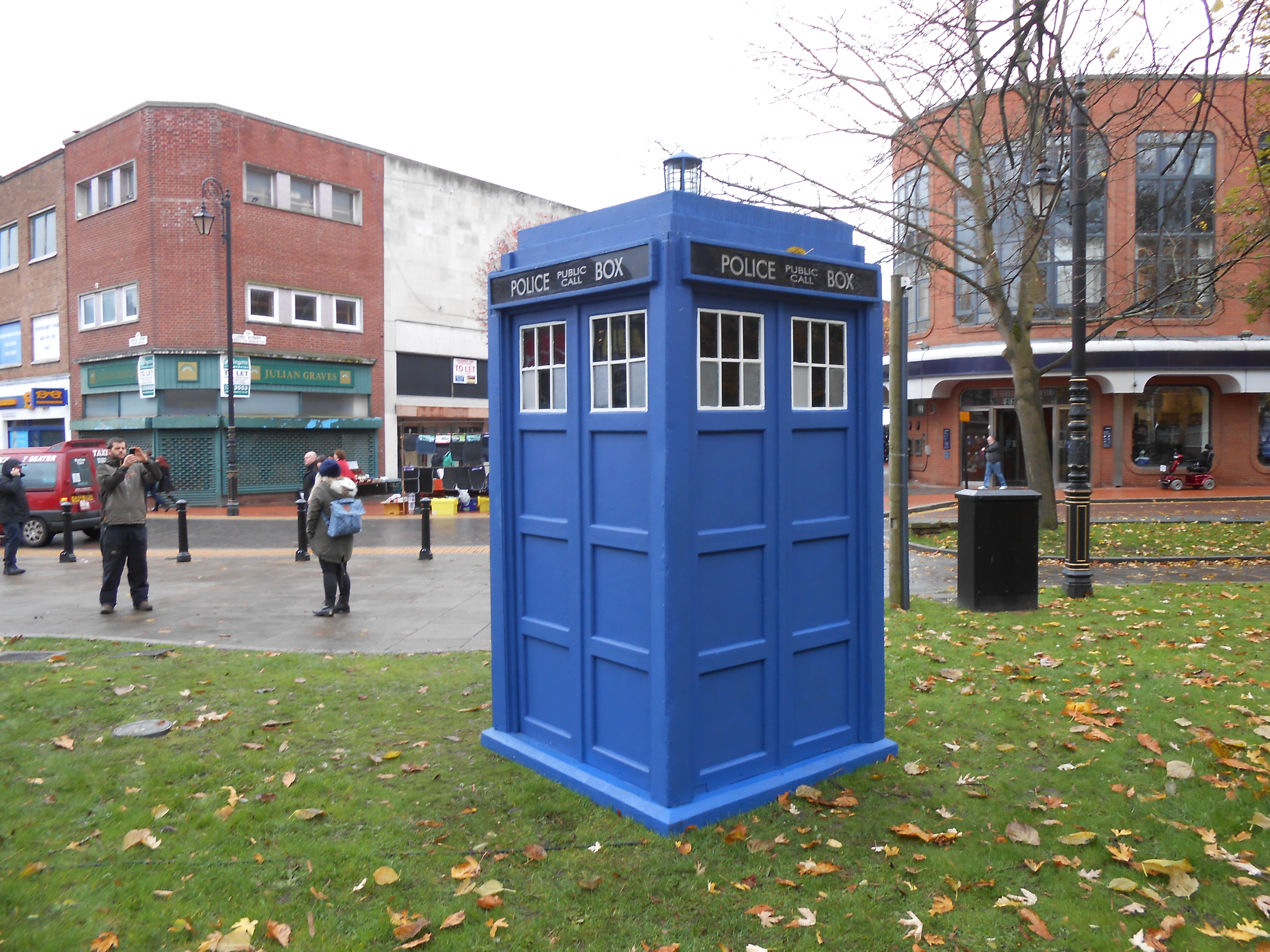 Tardis Tour Wales 2013 at Queens Square, Wrexham.